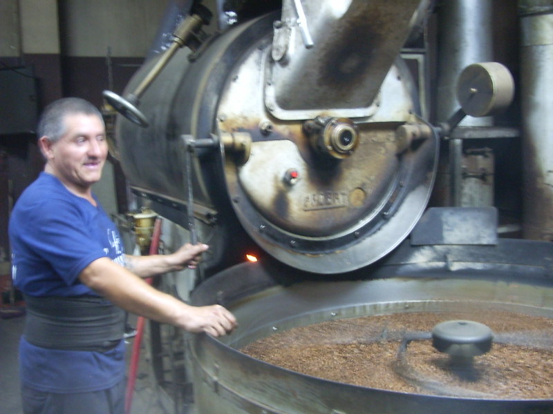 Escoffee is locally roasted at Café Conquistador. Photo taken in 2004 by Jerome Kruft.